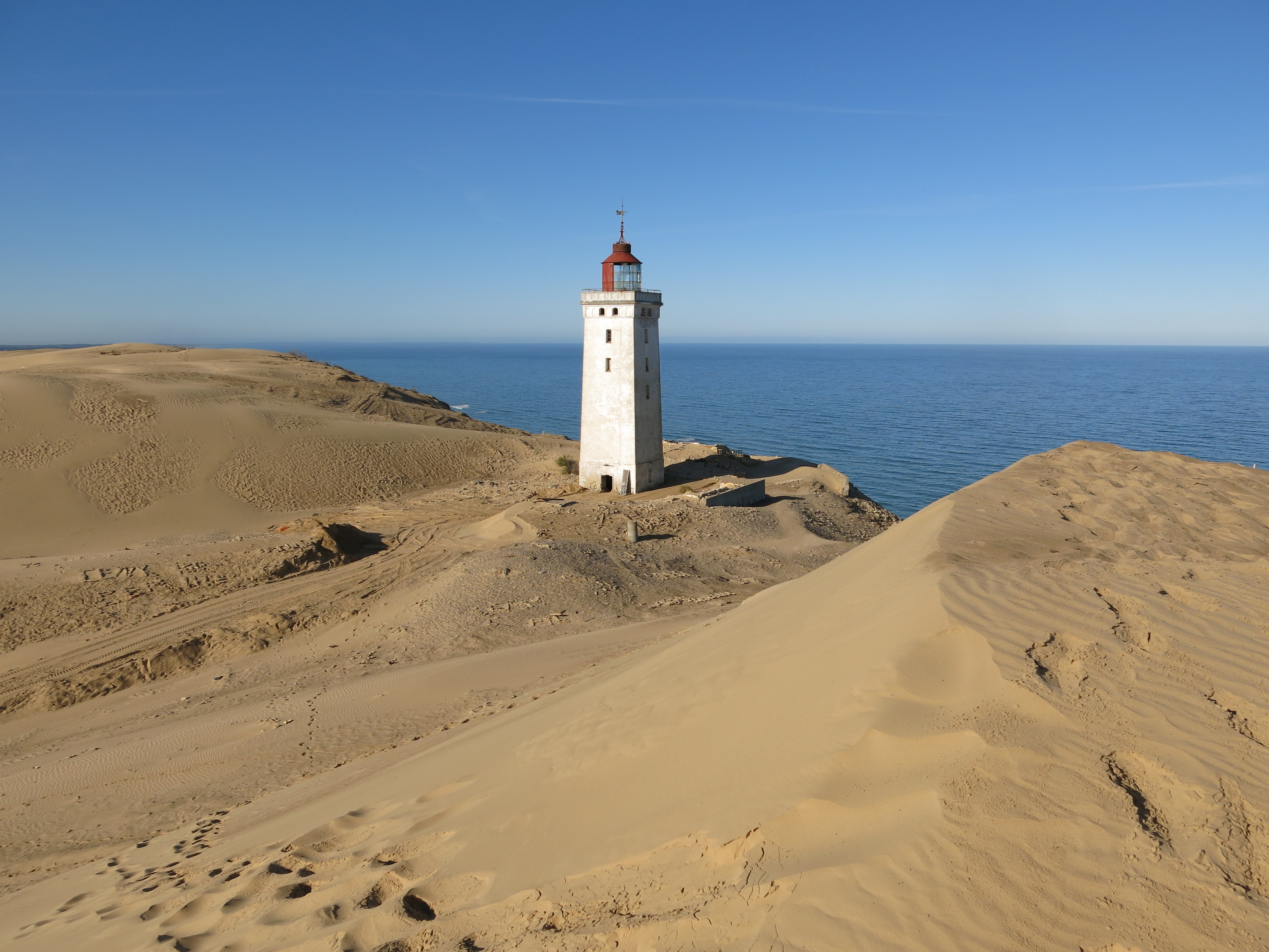 Lighthouse Rubjerg Knude